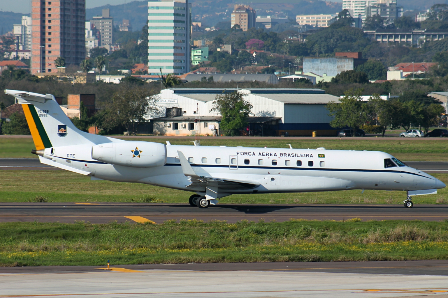 IMG_7325[1]_Fotor